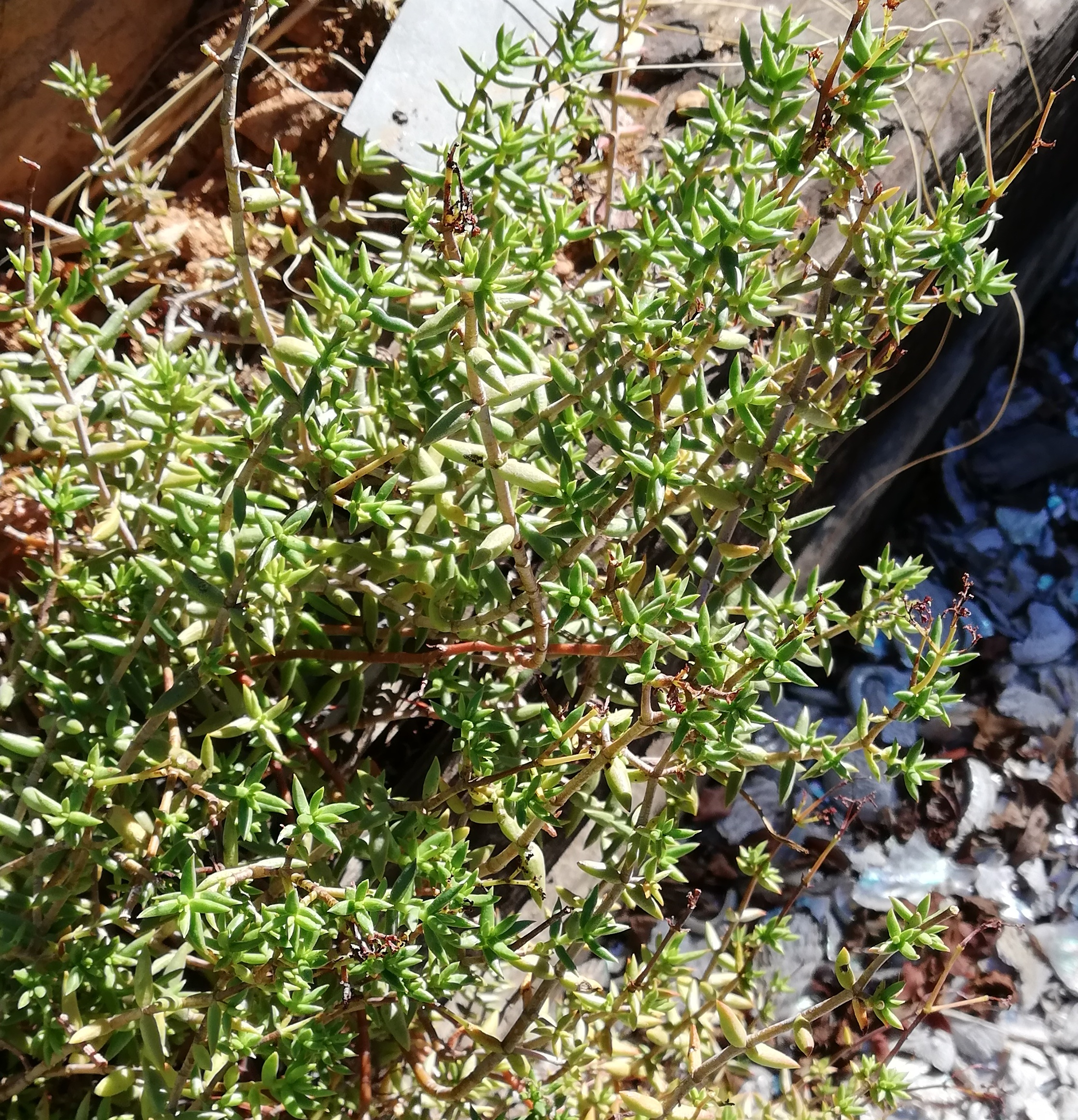 Crassula tetragona subspecies acutifolia - Babylonstoren